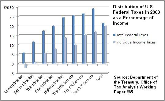 Distribution of U.S. federal taxes for 2000 as a percentage of income among the family income quintiles. Source: Department of the Treasury, Office of Tax Analysis Working Paper #85, "U.S. Treasury Distributional Methodology" by Julie-Anne Cronin (September 1999)- also available here